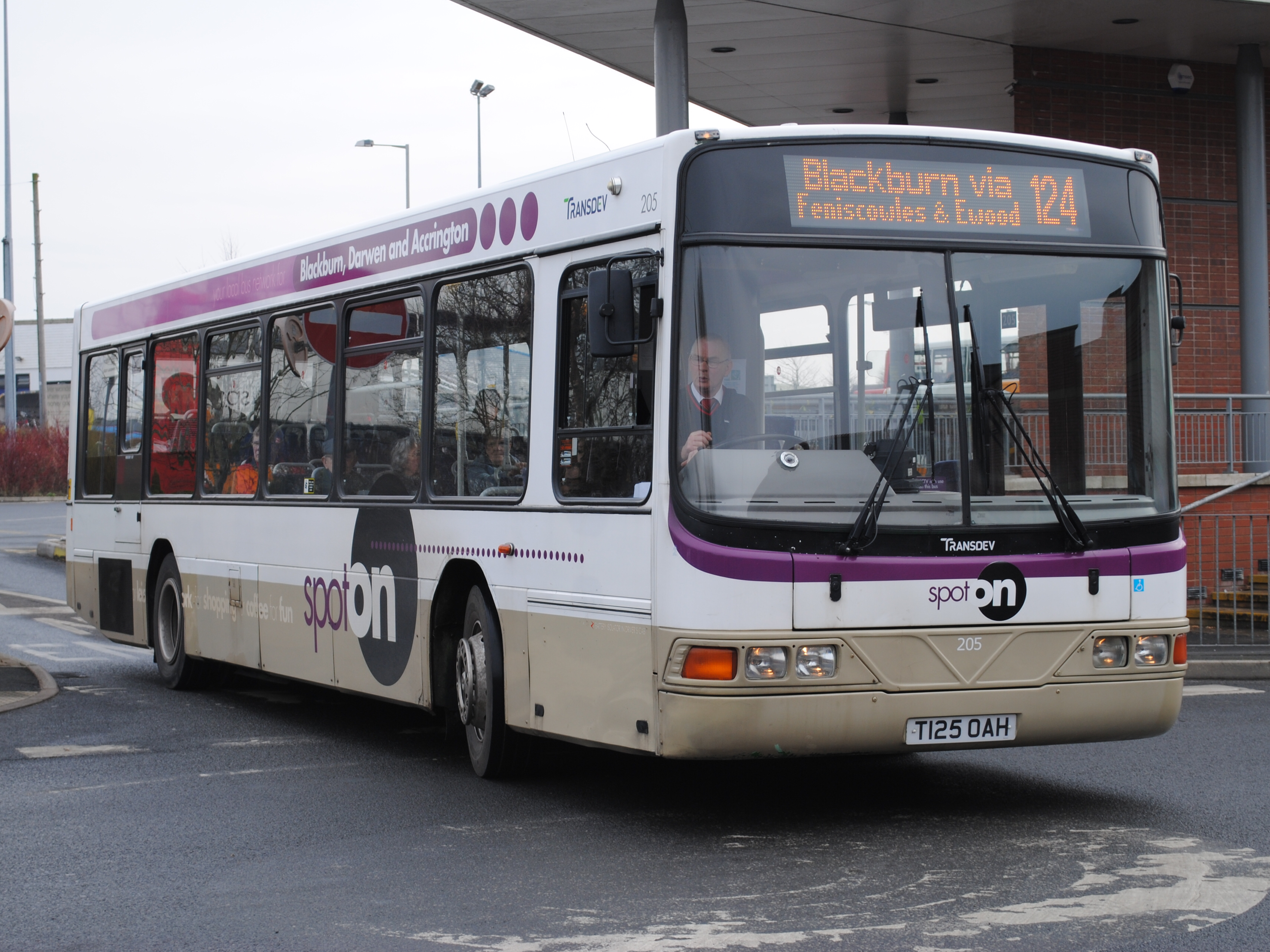 Volvo B10BLE Wright Renown